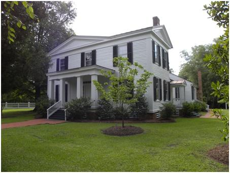 This is a picture of Liberty Hall in Kenansville, North Carolina, the fully restored ancestral home to the Kenan Family.